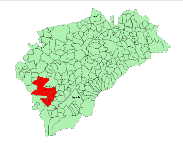 Sexmo de la Trinidad location in present province of Segovia.